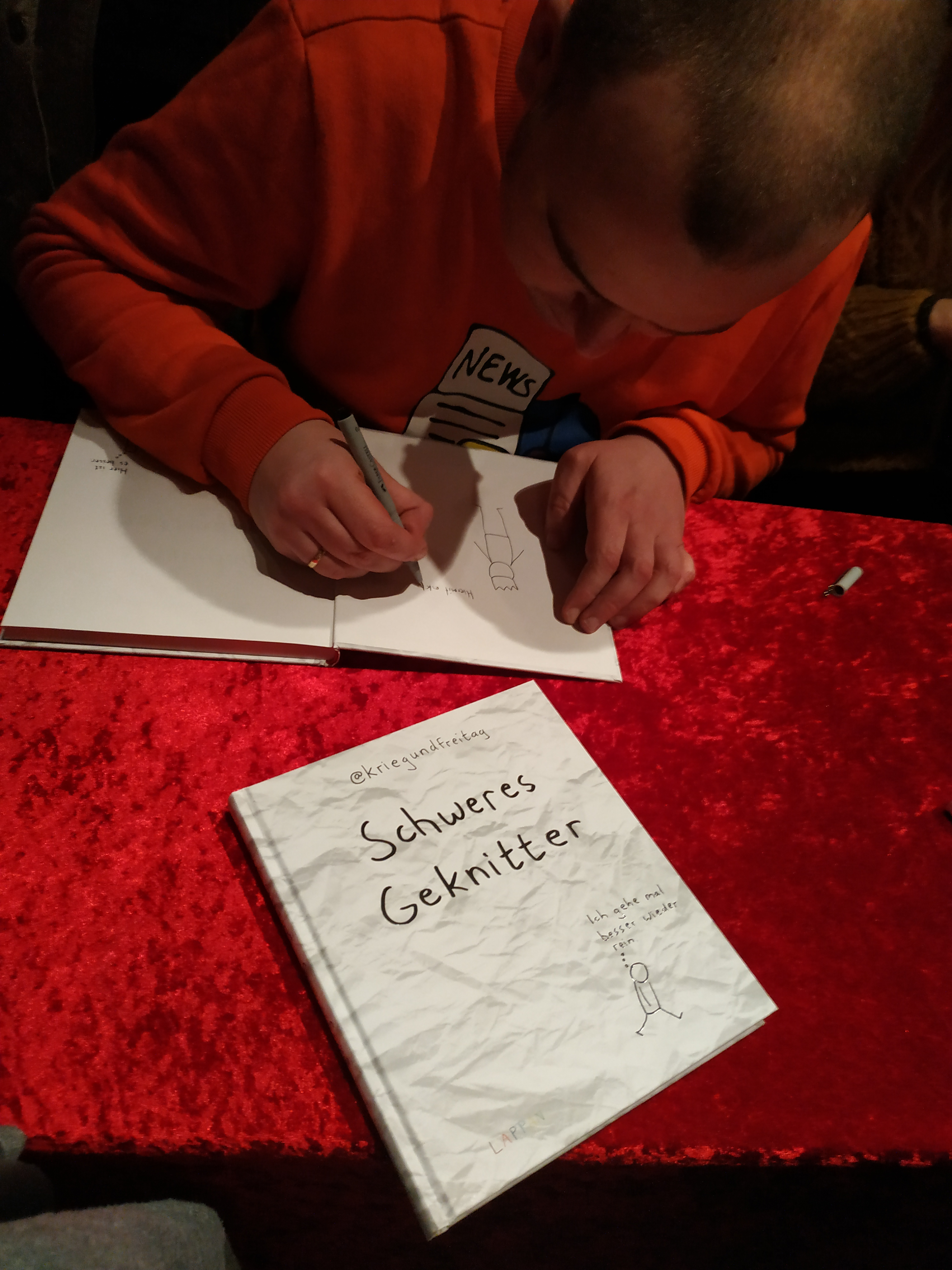 Kriegundfreitag nach der Lesung im Kulturzentrum Pelmke in Hagen